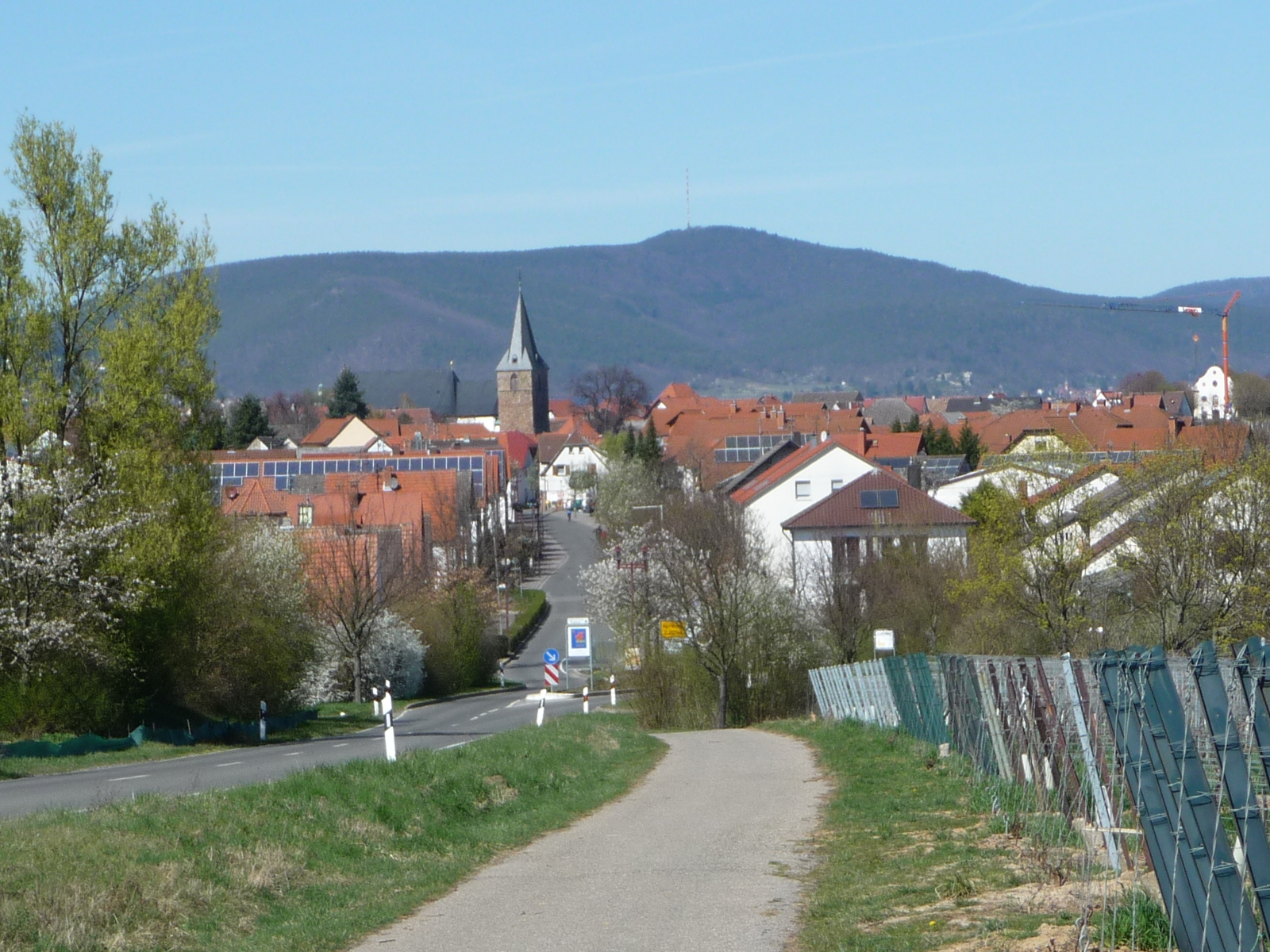 Kirrweiler in Rhineland-Palatinate, Germany